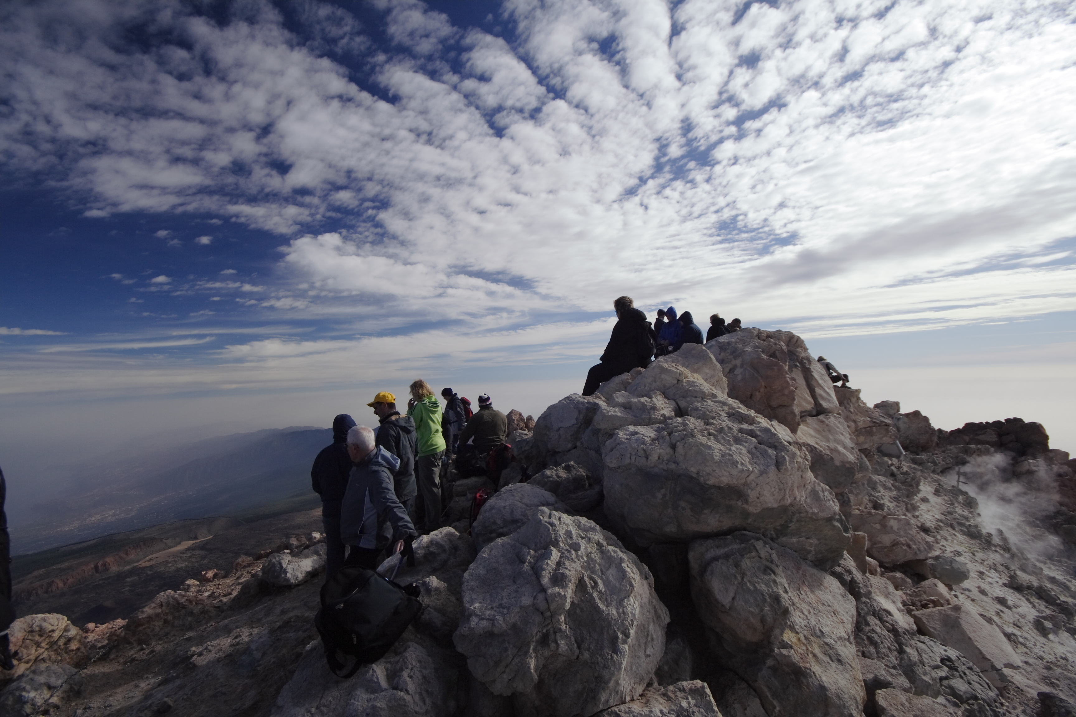 On top of Spains highest mountain, the Pico de Teide at Tenerife, Canary Islands, 3718 m high. On the lower right hand side, you see bad smelling clouds of sulfur coming out of this old volcano.